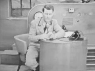 A screenshot from Captain Video and His Video Rangers. This United States program was broadcast from 1949 to 1955, and none of the episodes featured a copyright notice. Although some non-TV Captain Video content was registered for copyright, not a single episode of the TV series was ever registered with the US copyright office.